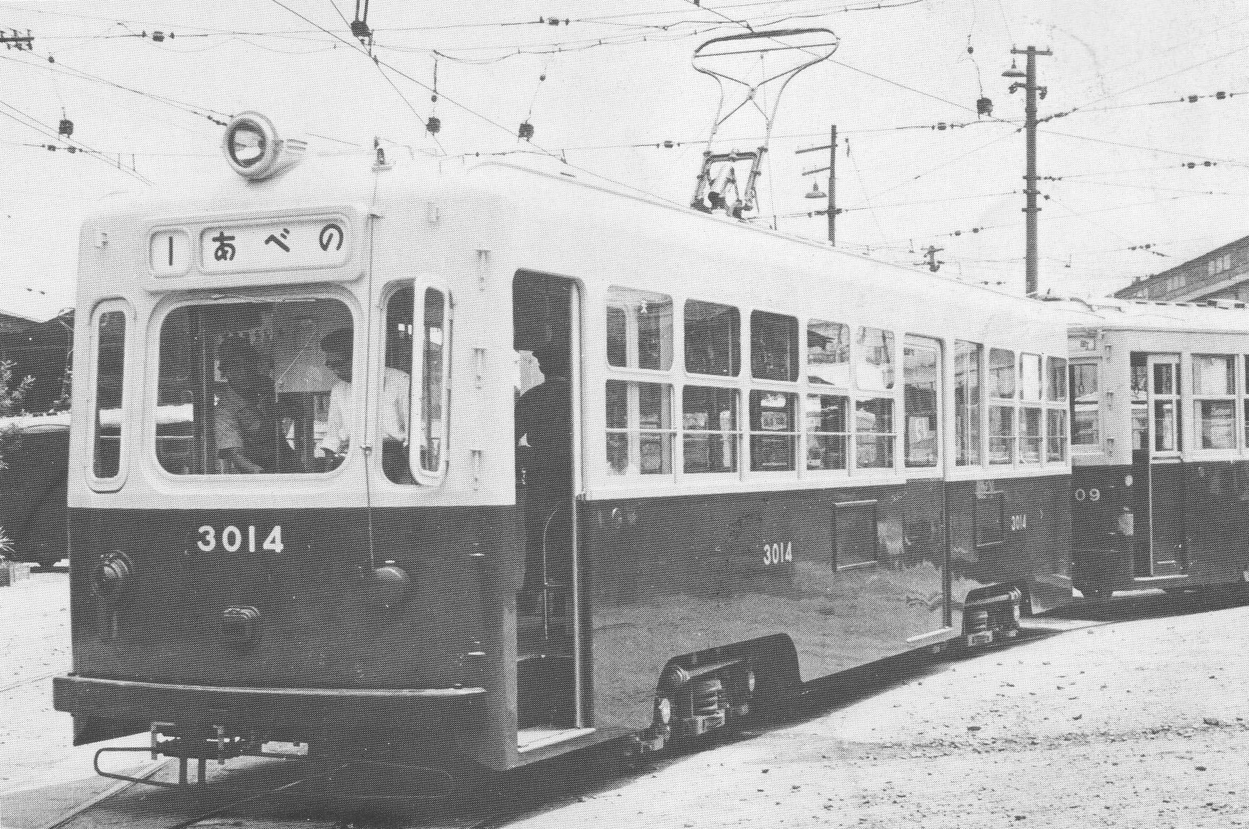 Osaka City Tram 3014.